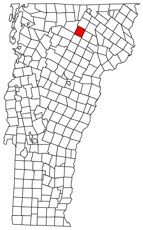 Map of Vermont towns with Albany highlighted.